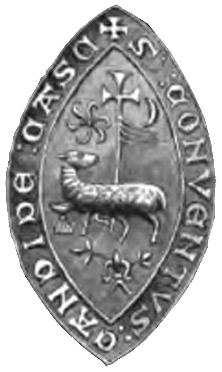 Seal of the Priory of Whithorn (closeup)